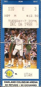 A ticket for a December 6, 1988 National Basketball Association game featuring the Utah Jazz versus the Golden State Warriors at the Oakland Coliseum Arena.